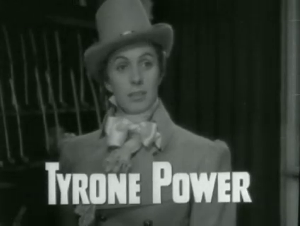 Tyrone Power in Lloyd's of London 1936 Henry King